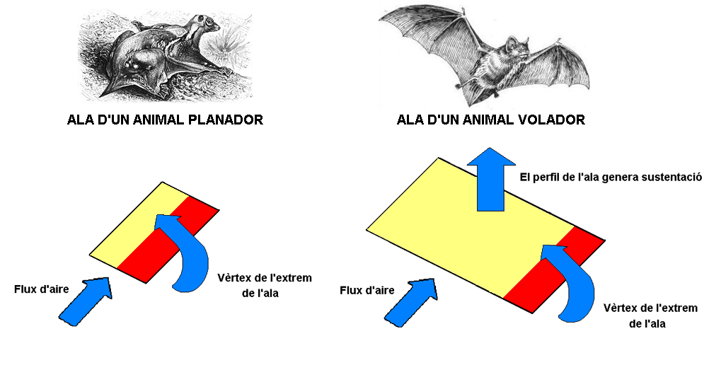 Comparison of the aerodynamic profiles of wings in gliding and flying animals (in Catalan)